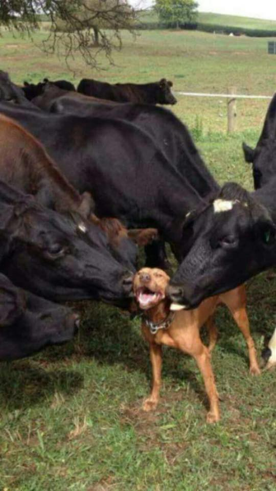 Bullmastiff Brasileiro